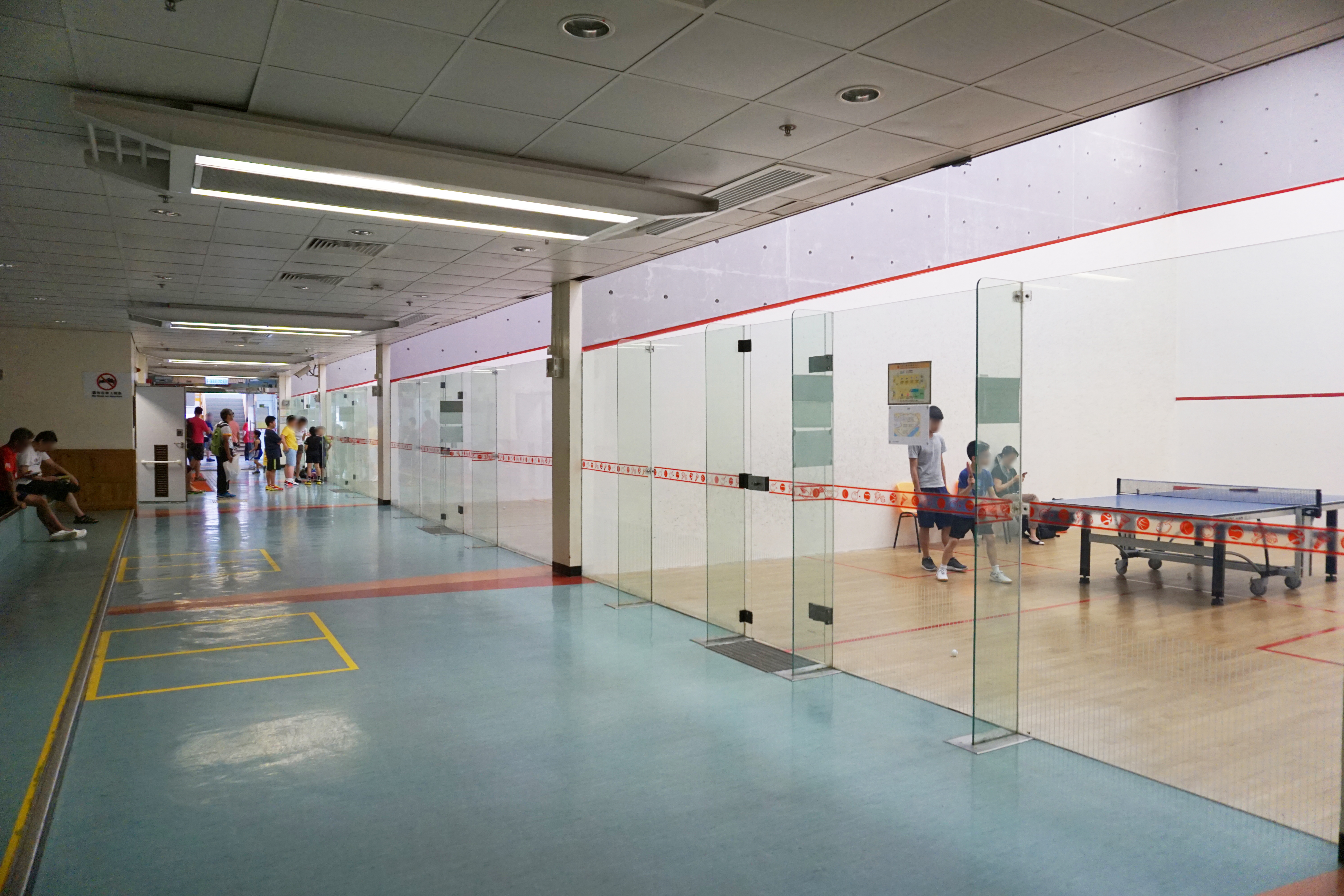 Tennis & Squash Centre in Aberdeen, Hong Kong.